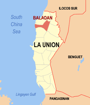 Map of La Union showing the location of Balaoan